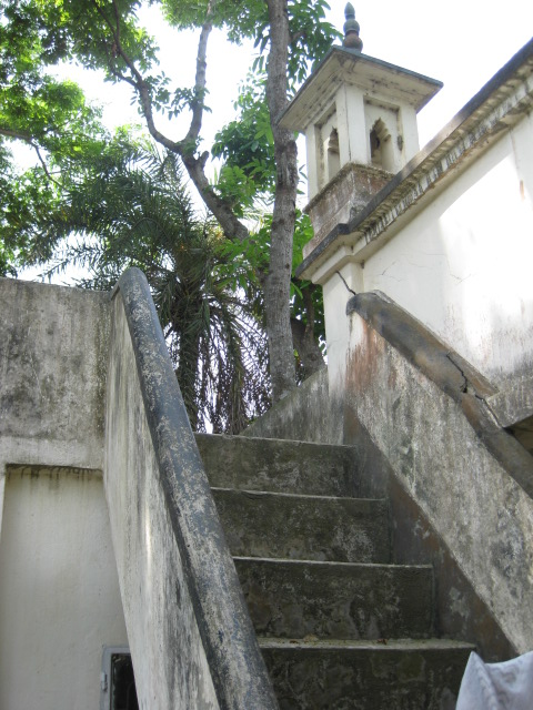 Flight of stairs on the east facade of the jama masjid